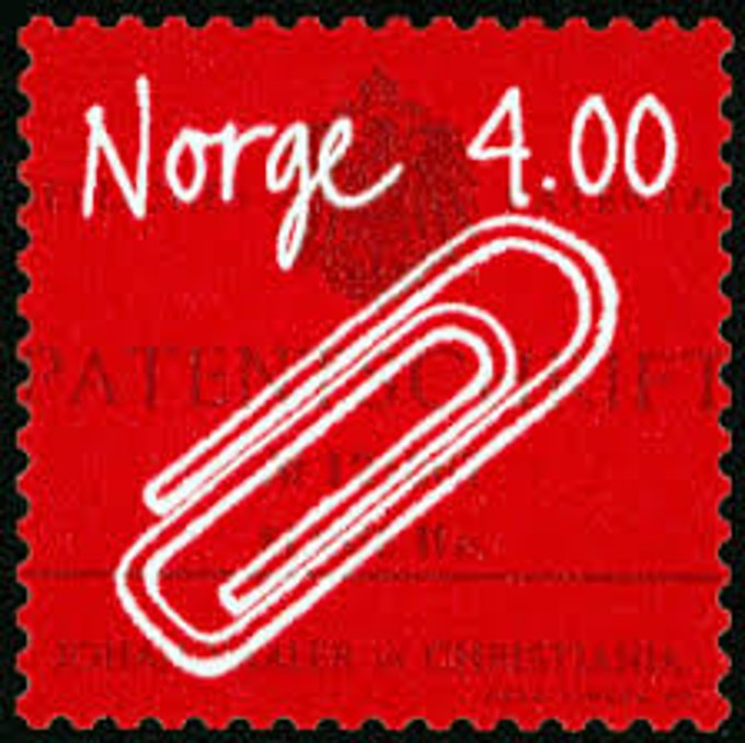 The postal service of Norway issued a stamp in 1999 celebrating the false fact that the paper clip was invented in 1899 by a Norwegian. The background depicts his German Patenschrift from 1901, but the clip in the foregound is the common Gem clip, never patented, but introduced in 1892. The clip patented by Johan Vaaler in Germany and USA was not convenient and was never manufactured.